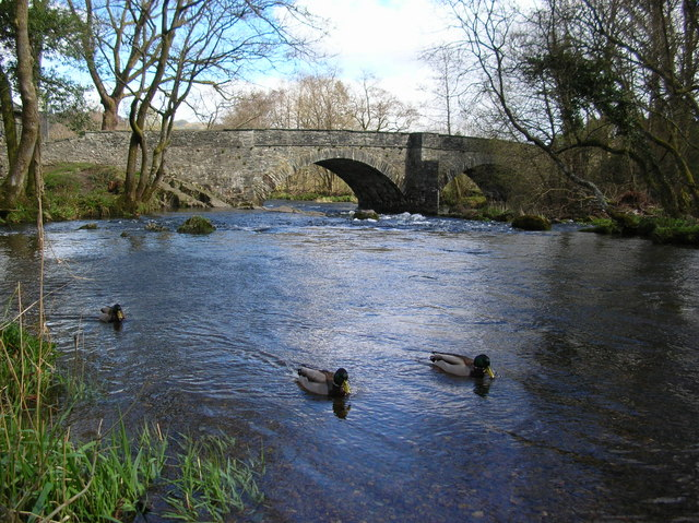 Skelwith Bridge Three ducks swimming upstream of the bridge at Skelwith.